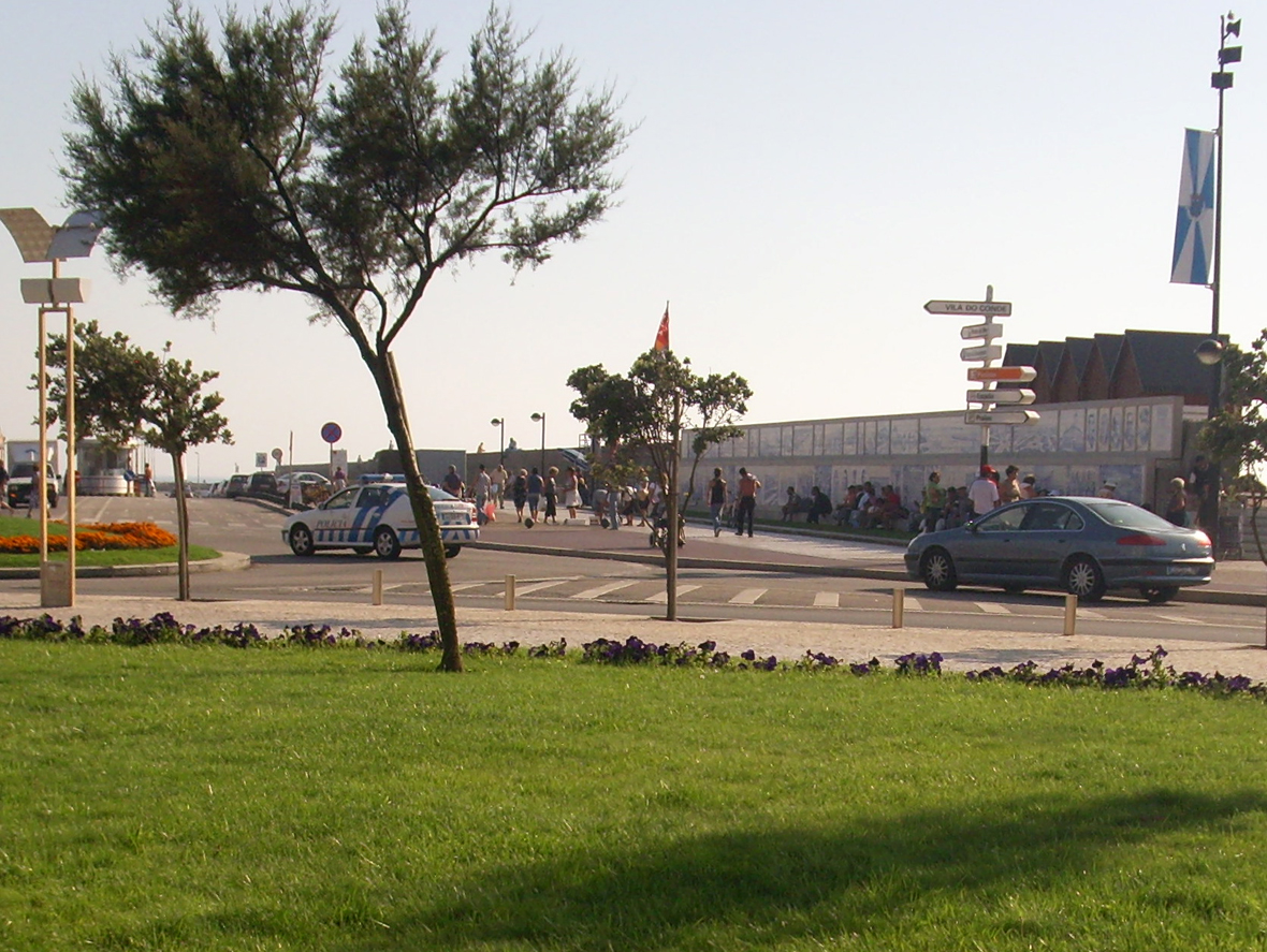 Queen Mary II Seaport wall in Póvoa de Varzim